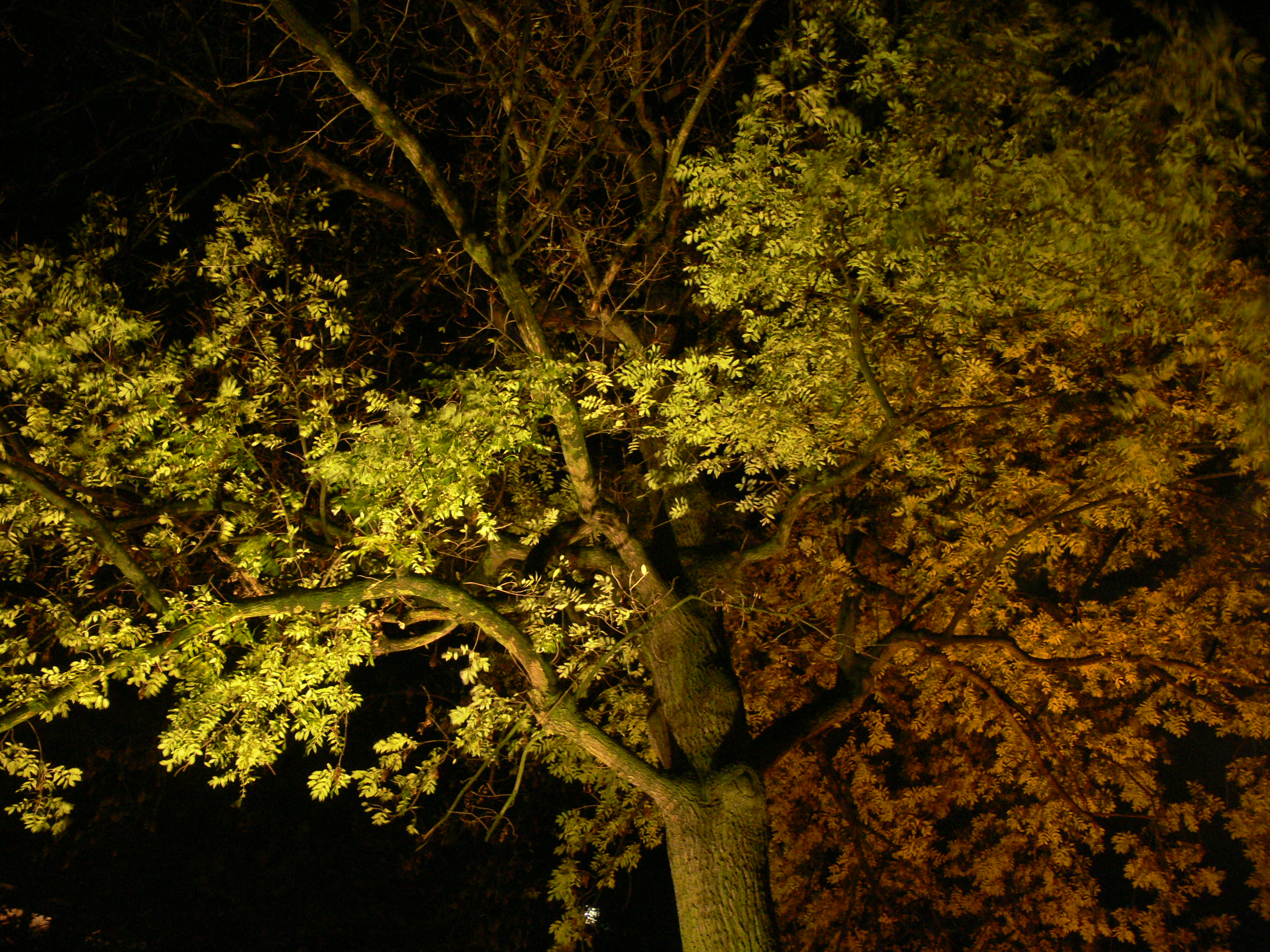 This tree has lost its normal leaves in end of autumn (2009-11-17) at the top, but the lower leaves, lit by a single spot recessed in the floor of a stock will fall well behind. The ecological consequences of this delay are poorly evaluated. The light also disturbs the birds (blackbirds sing most of the night). Location: small town square (Avenue Foch square Dutilleul, Lille, northern France)